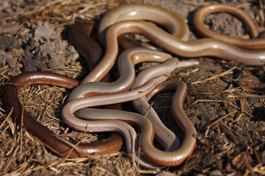 In a Hertfordshire wood.